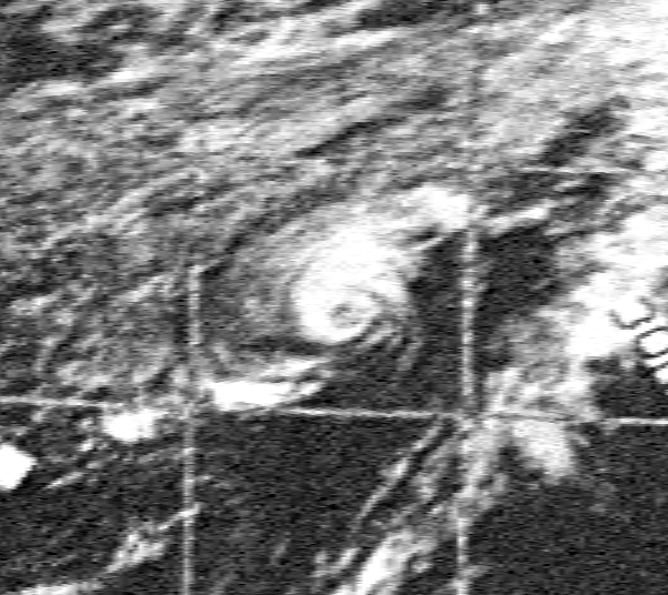 Hurricane Seventeen on November 5, 1969